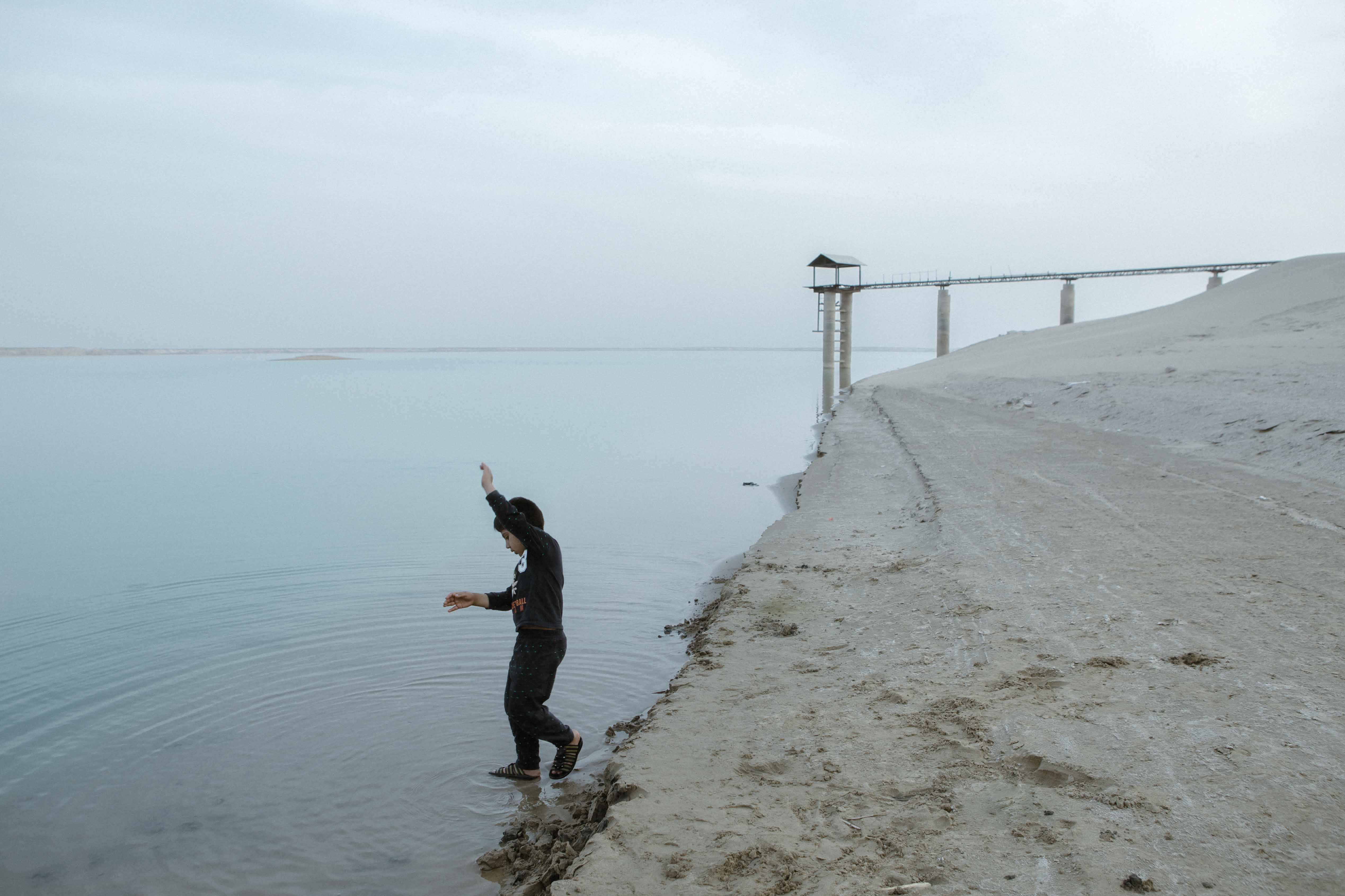 Children are playing around the Chah Nimeh reservoirs. The Chah Nimeh reservoirs are large natural holes in Sistan province into which Hirmand river water is directed. In times of water shortage, Sistan’s drinking water and some part of its farming water are provided through this artificial lake. The only sign of water in the Sistan landscape is the Chah Nimeh reservoir. During 20 years, the Hamoun wetlands had vanished after the South Asia region was hit by the most persistent drought. Besides building many dams at the Upstream Hirmand, Afghanistan refuses to adapt to Iran’s water rights and violates its water agreements. Sistan province.2018